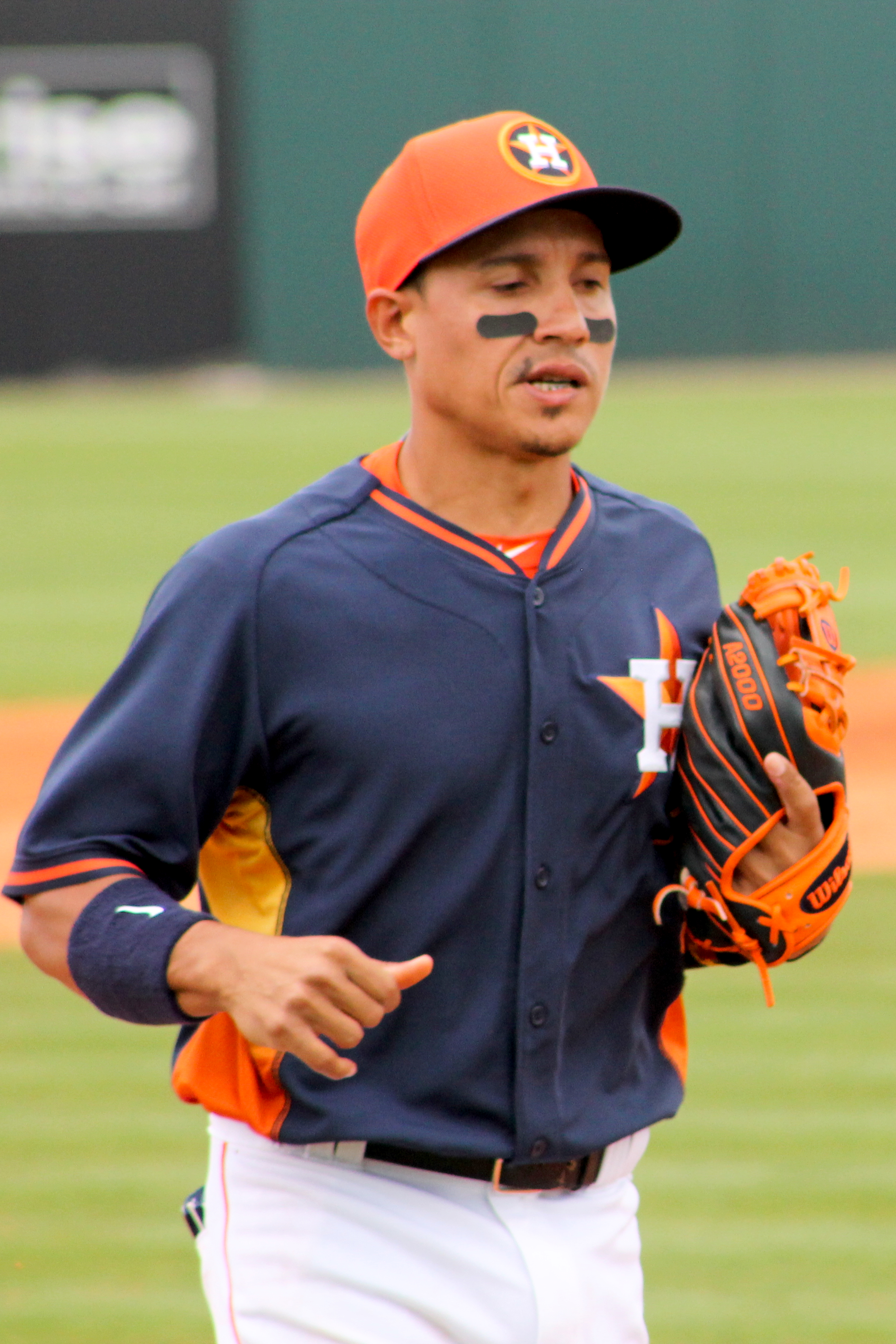 Professional baseball player Ronald Torreyes at spring training with the Houston Astros in 2015.